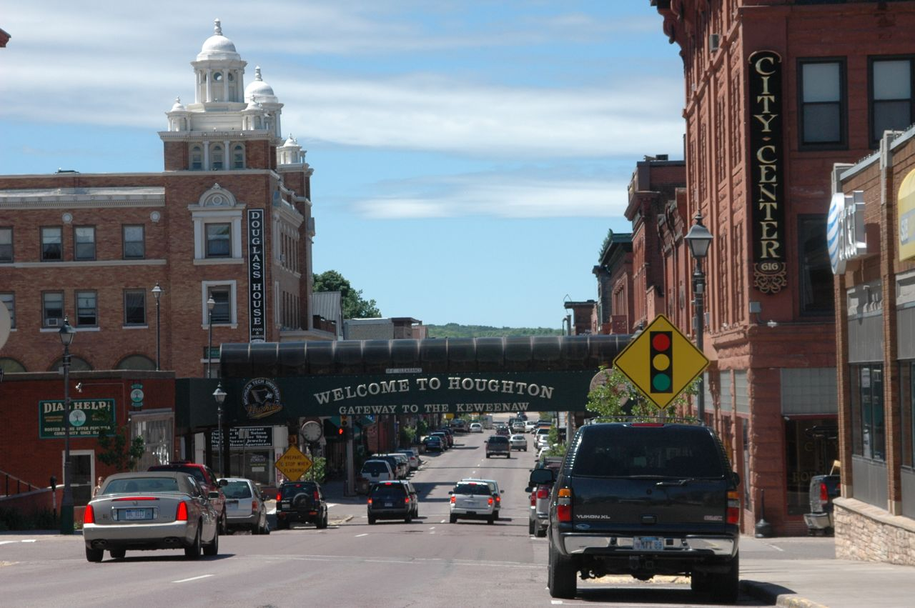 Shelden Avenue in Houghton, Michigan